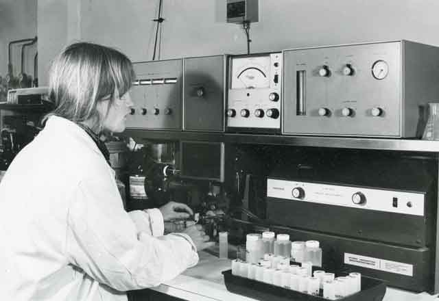 An archaeological scientist working in the human environment department of the UCL Institute of Archaeology in the 1970s.